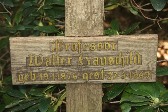 german sculptor Walter Hauschild, grave at Southwest Cemetery Stahnsdorf